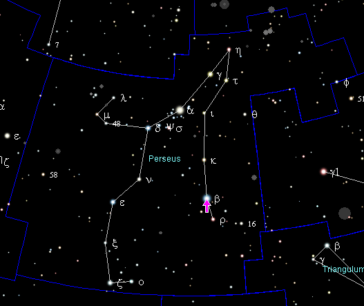 The position of Beta Persei (Algol; Gorgona; Gorgonea Prima; Demon Star; El Ghoul) Thanks for the help of Patrick Chevalley